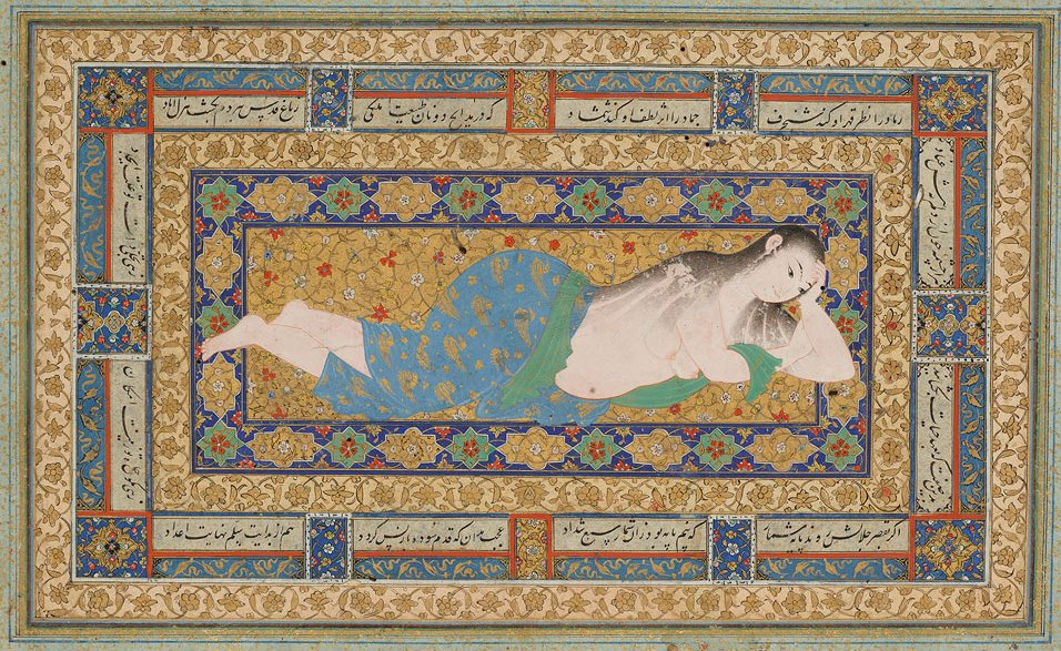 A Young Lady Reclining After a Bath, Leaf from the Read Persian Album Herat (Afghanistan), 1590s. By Muhammad Mu’min MS M.386.5r. Purchased by Pierpont Morgan